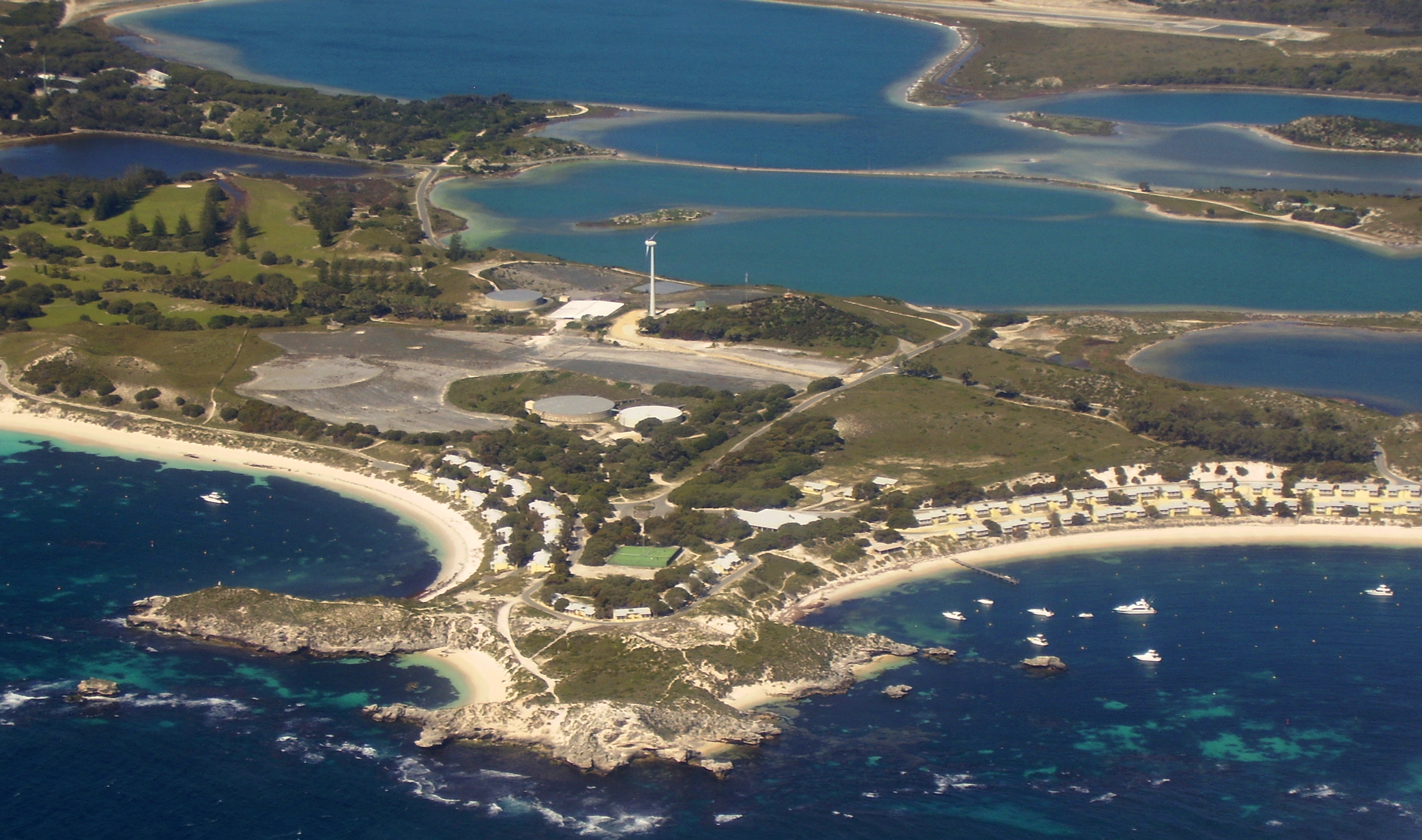 Aerial photograph of Geordie Bay and Longreach Bay on Rottnest Island, with the disused Mt Herschell water catchment area, the wind turbine and some salt lakes in the background.